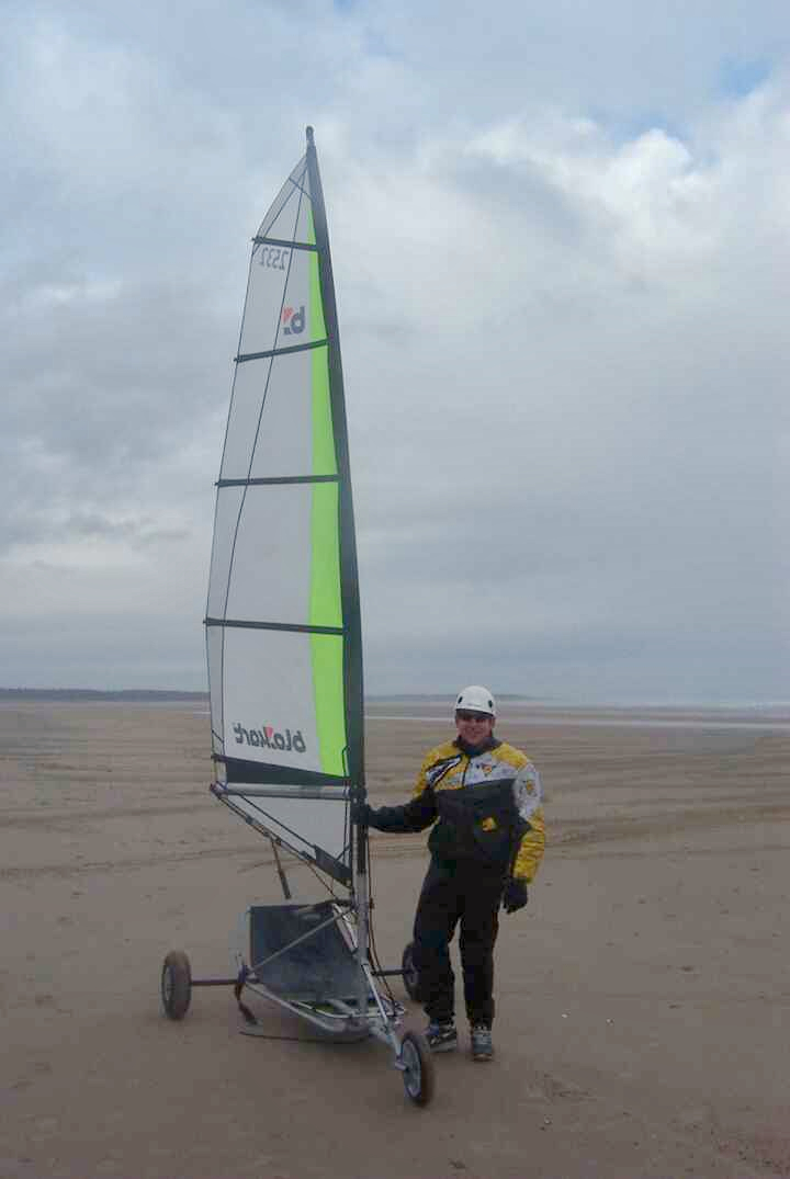 Patrick Prosser next to a sand yacht he had been riding on the West Sands, St Andrews, Scotland, November 2003.